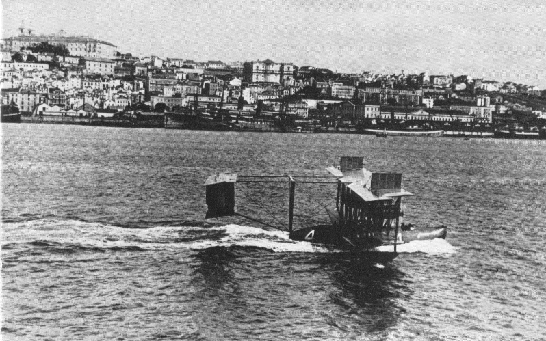 Curtiss NC-4 in Lissabon Harbour 1919